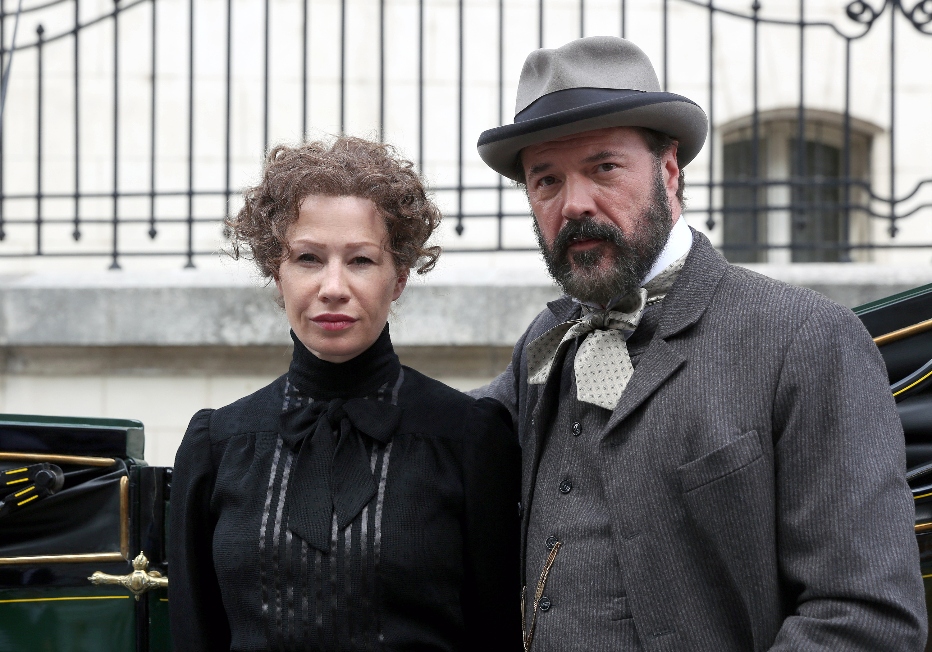 Birgit Minichmayr as Bertha von Suttner and Sebastian Koch as Alfred Nobel on the filming location of the movie Madame Nobel in and around the Embassy of France in Vienna (Vienna, Austria).